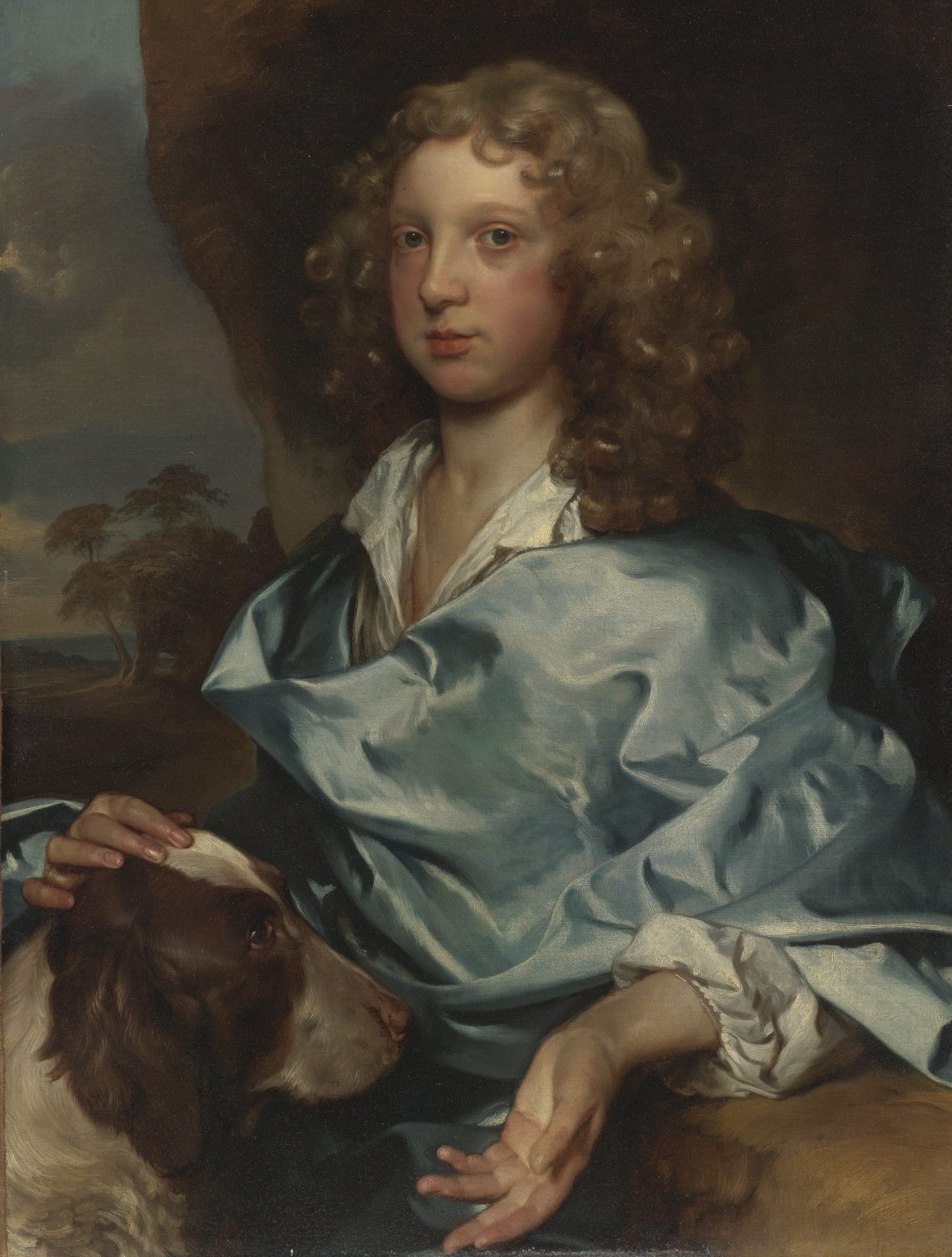 Portrait of a young gentleman of the Ashley-Cooper family oil on canvas, 82.5 by 61.5 cm.